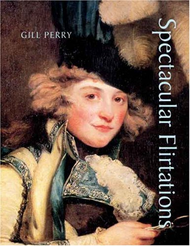 Mrs. Jordan in the Character of Hippolyta, painting by John Hoppner, first exhibited 1791